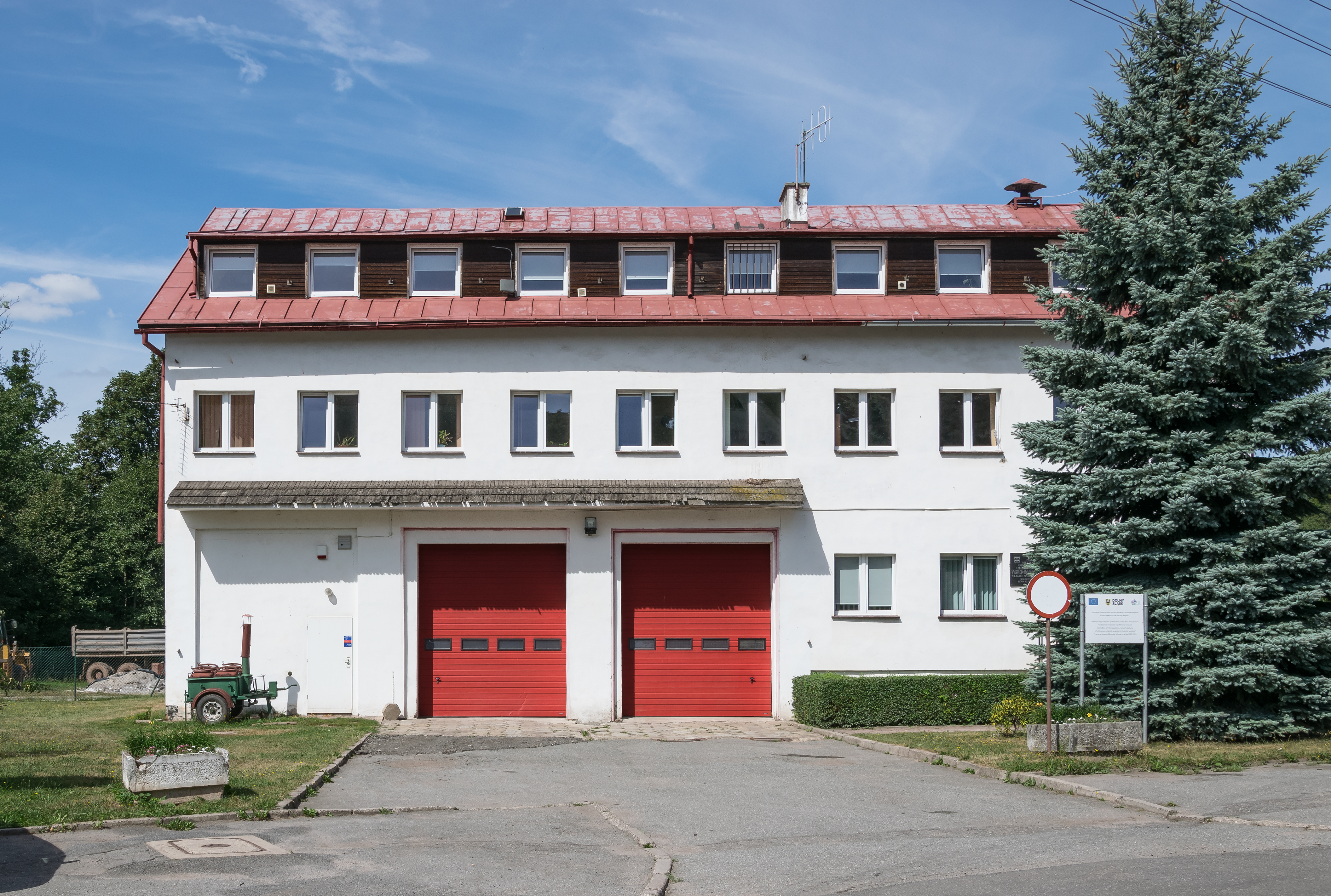 Fire station in Lewin Kłodzki